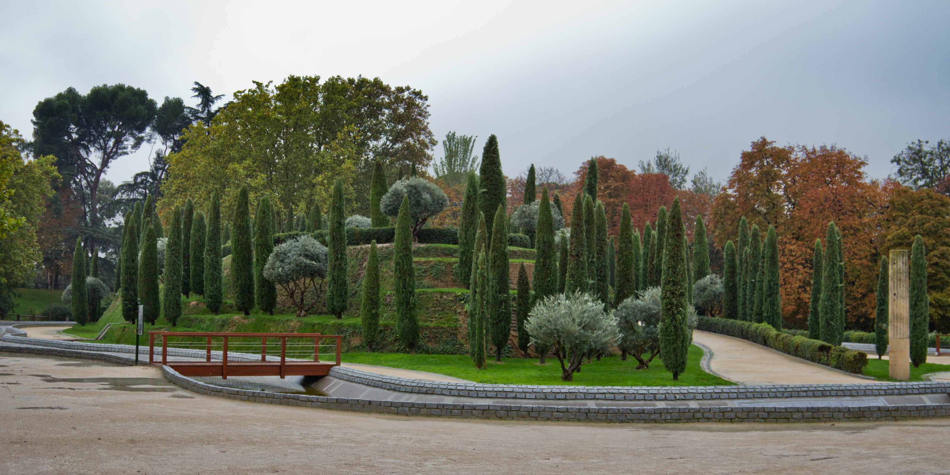 Forest of Remembrance, park of El Retiro, Madrid, Spain.